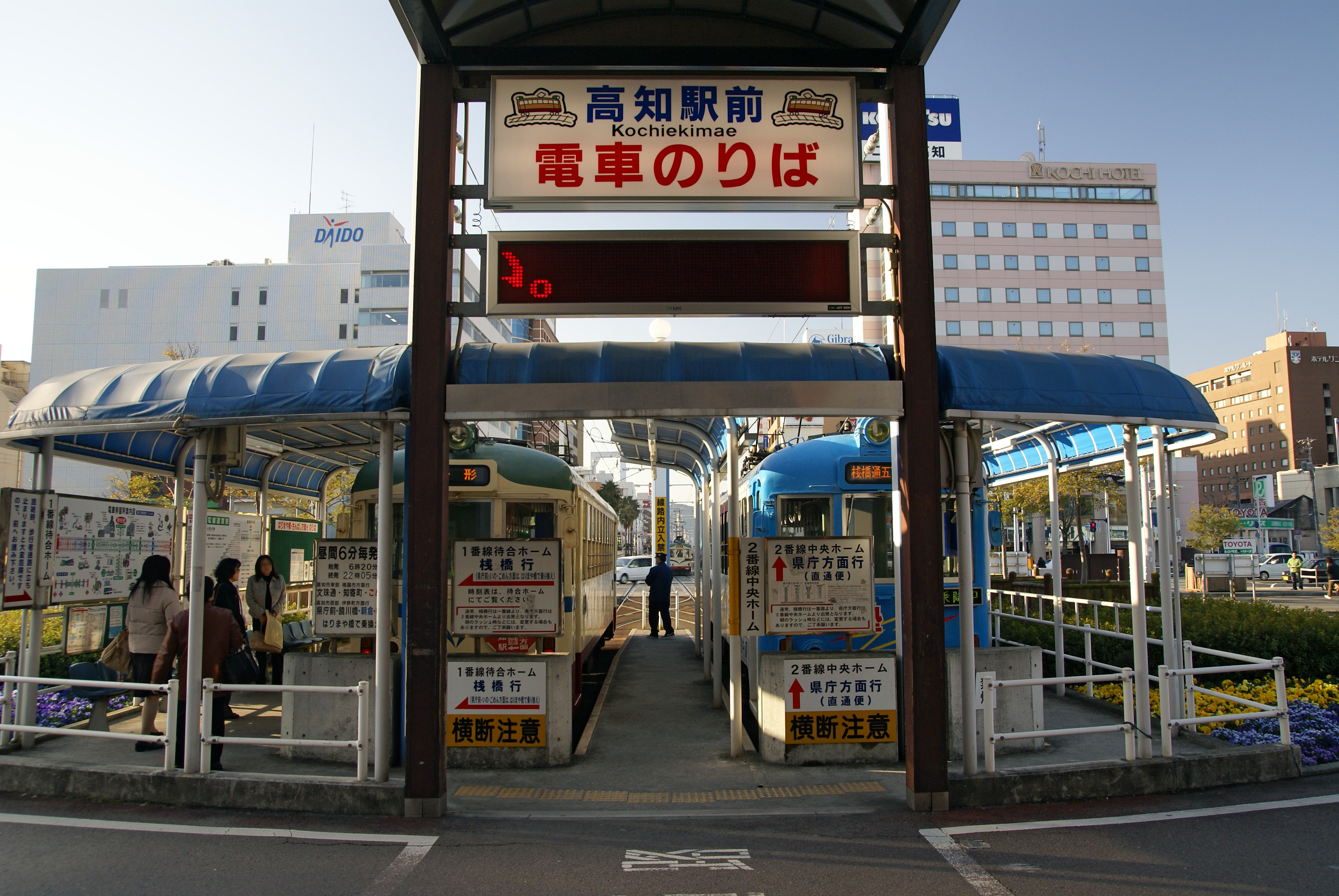 Kochiekimae Station in Kochi, Kochi prefecture, Japan